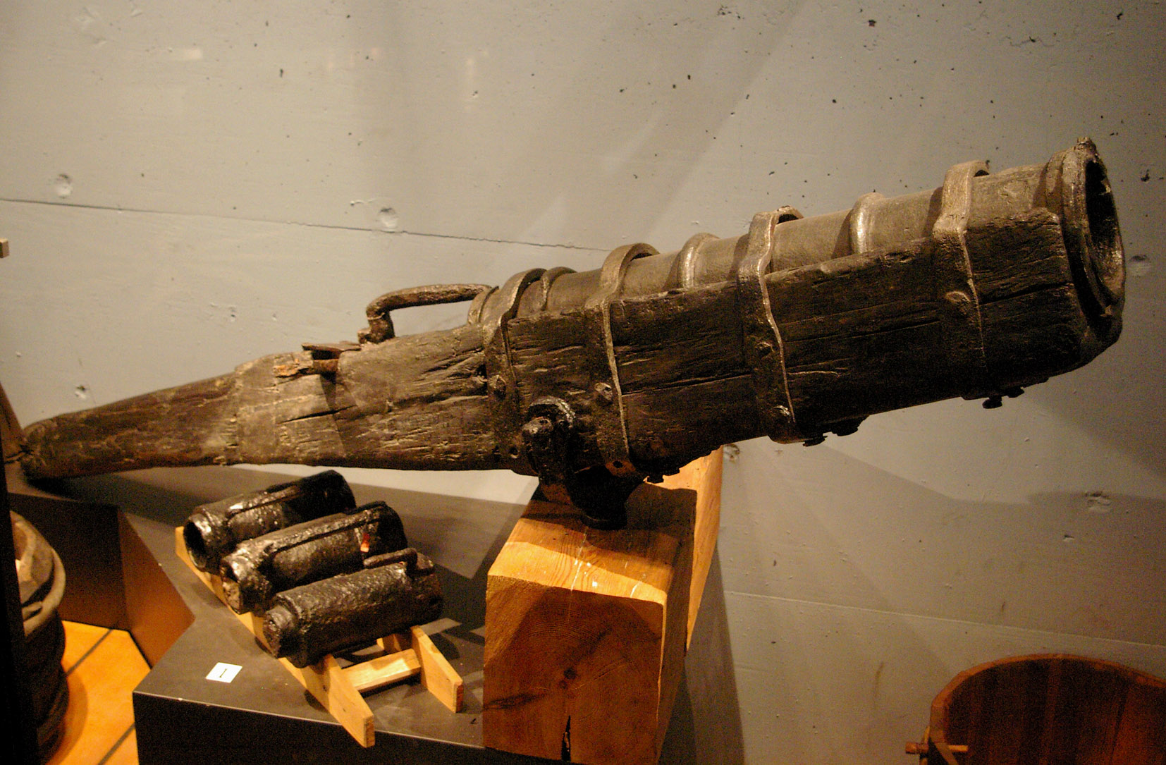 Reconstracted medieval cannon.